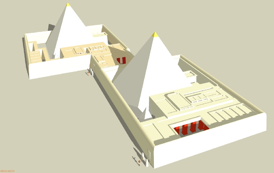 Restoration of the pyramids of Iput II and Neith at Saqqara - 6th dynasty of Egypt